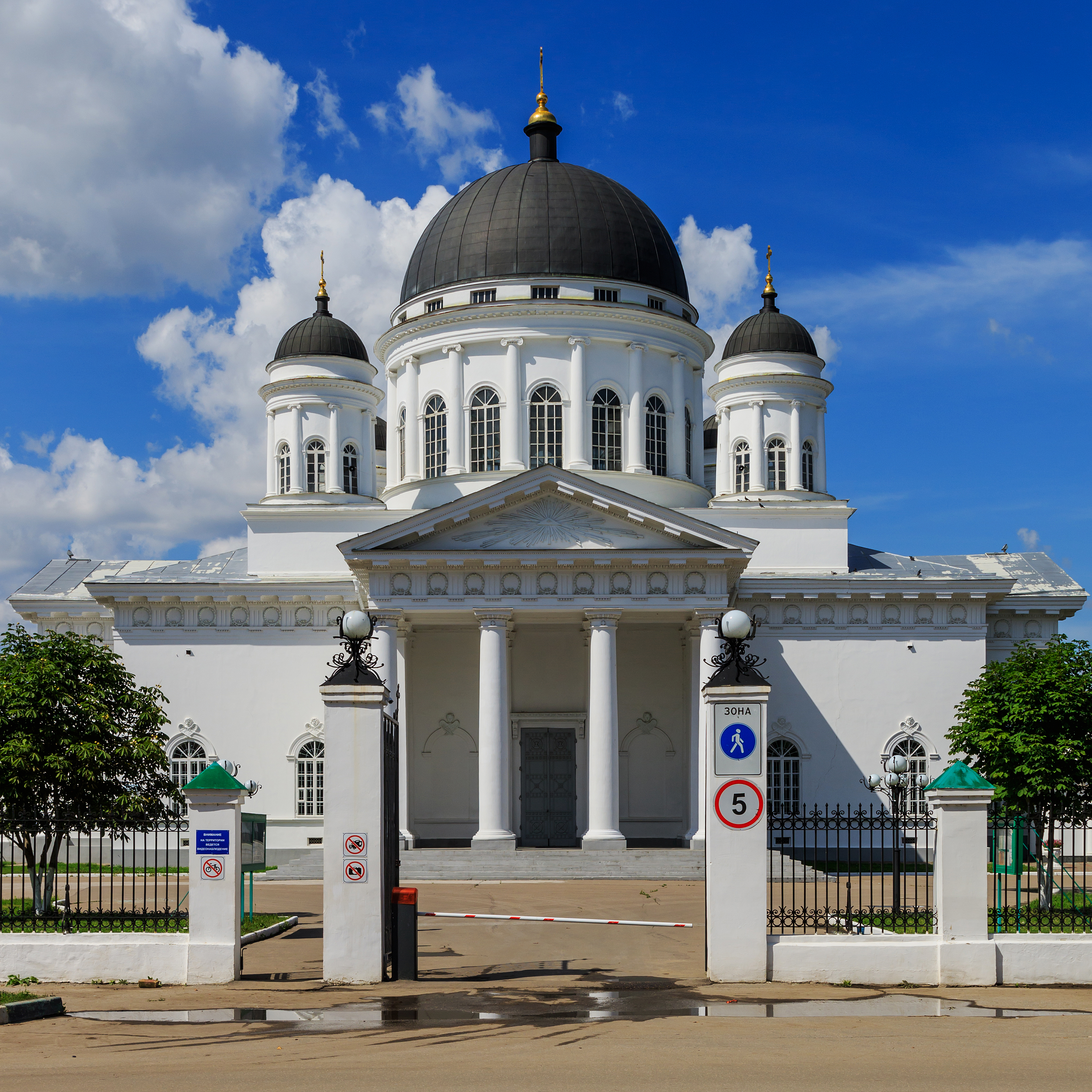 Old Fair Church of the Transfiguration in Nizhny Novgorod, Russia